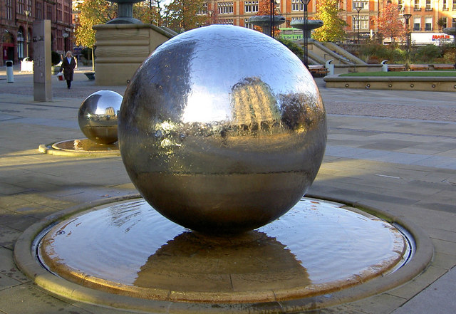 Heart of the City water feature Sheffield